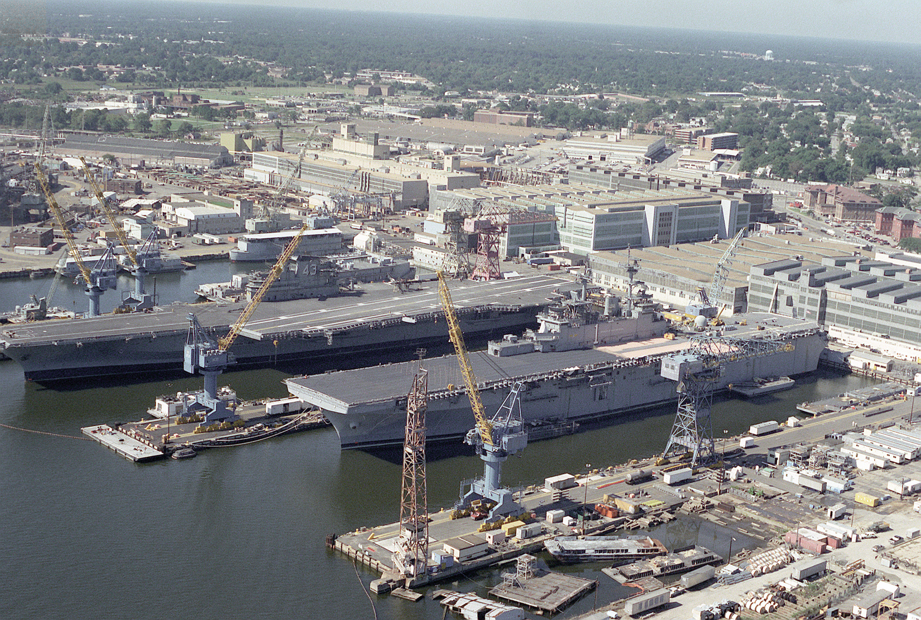 The decommissioned U.S. Navy aircraft carrier USS Coral Sea (CV-43), left, and the amphibious assault ship USS Wasp (LHD-1) tied up at the Norfolk Naval Shipyard, Virginia (USA), on 25 September 1990. The Coral Sea had been decommissioned on 26 April 1990, whereas Wasp had been commissioned on 29 July 1989.